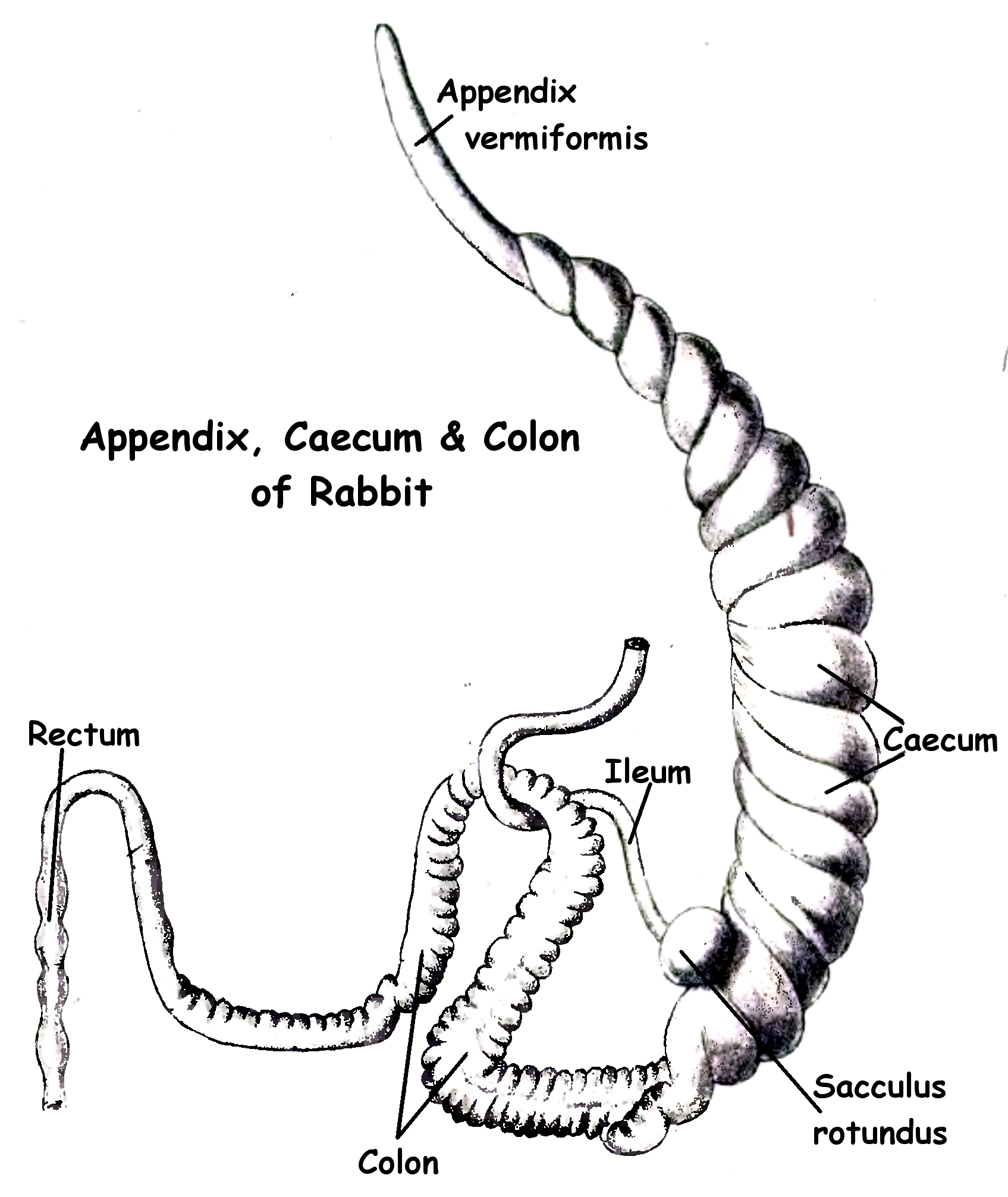 The rabbit has a modest-sized appendix, much like a human appendix, attached to the end of the caecum.